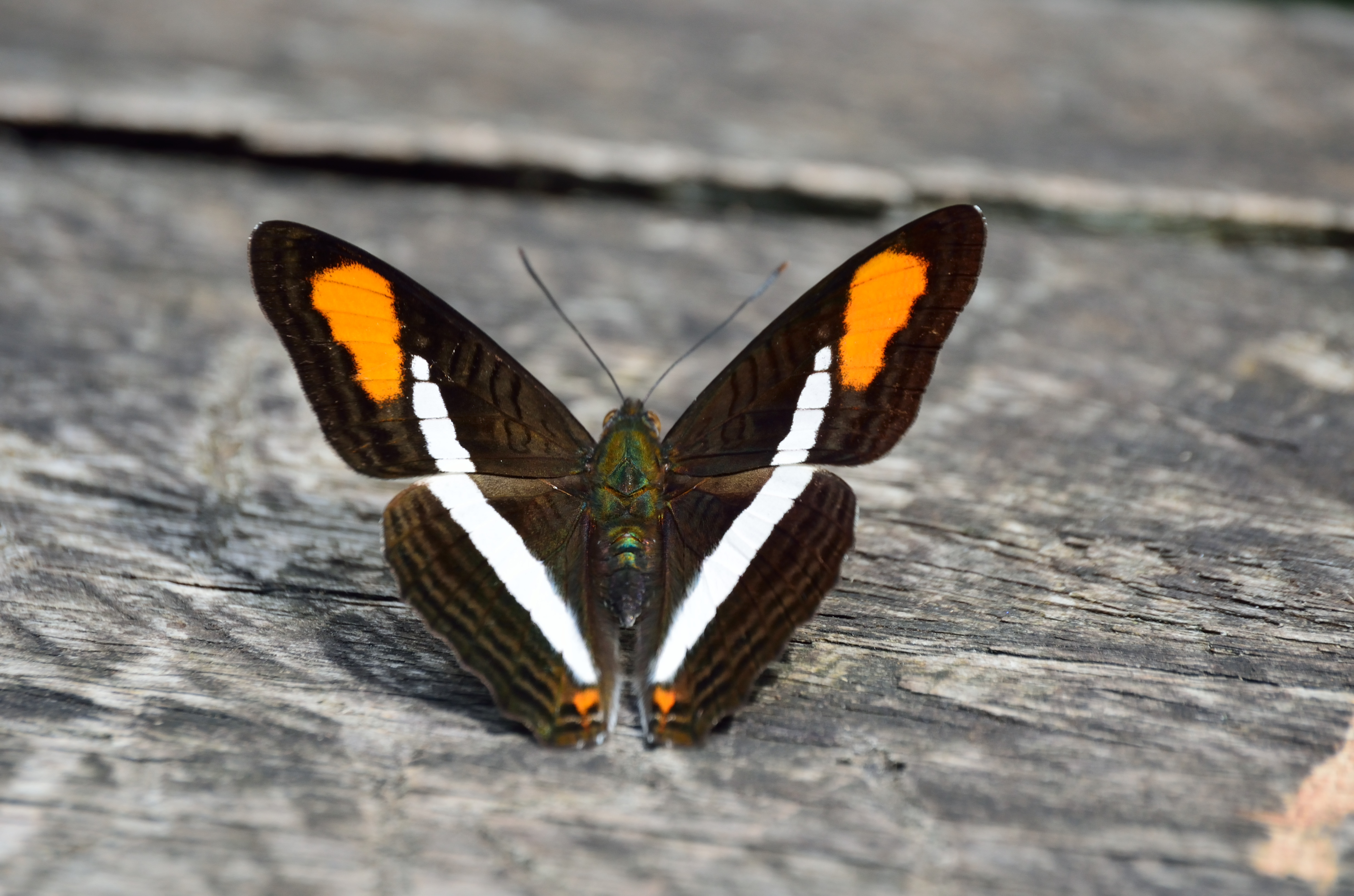 Adelpha syma